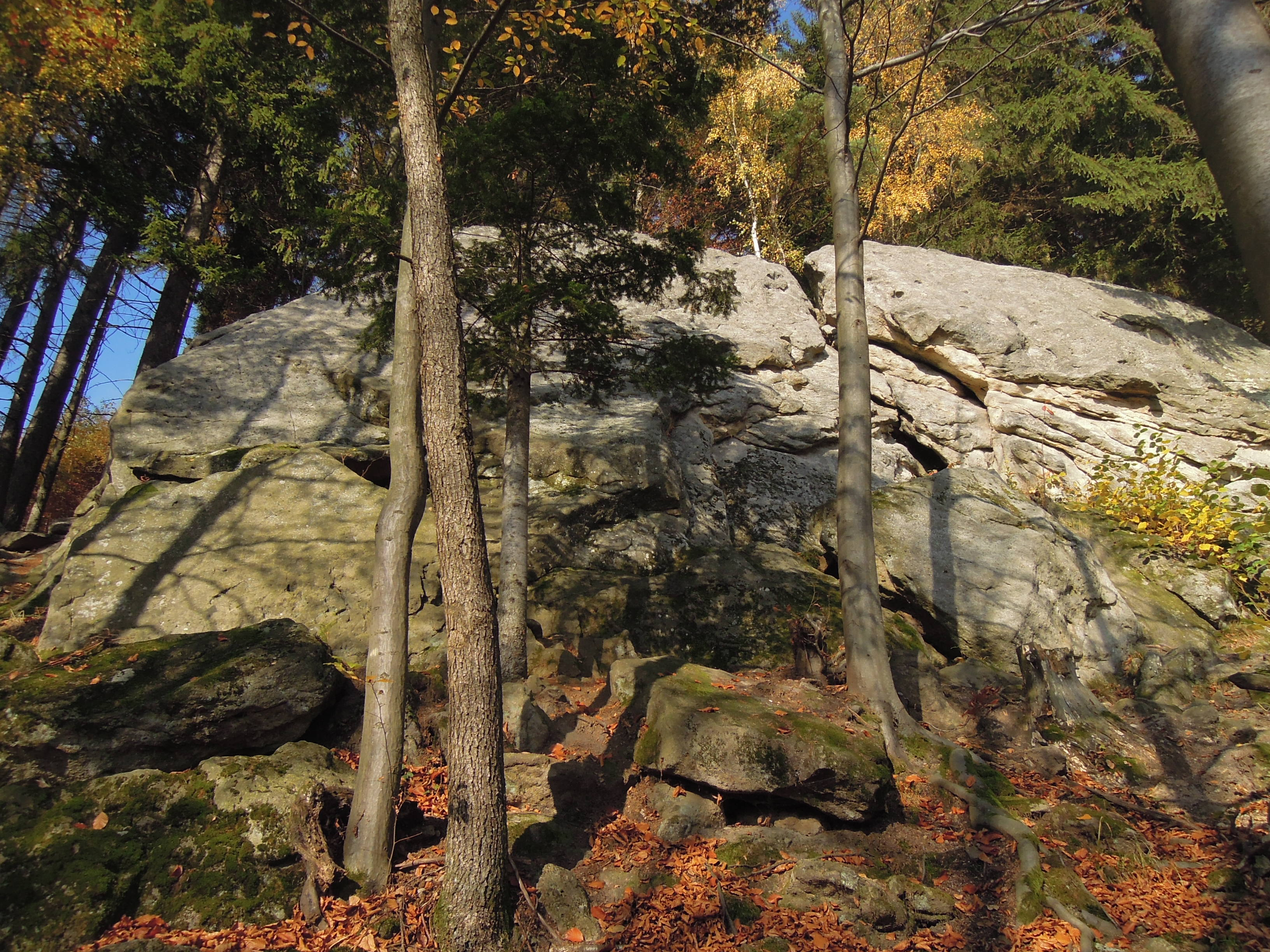 Natural monument Skály in Držková, Zlín District, Zlín Region, Czech Republic